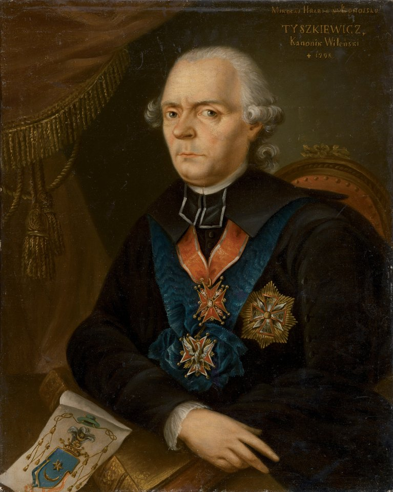 Portrait of Nicolas Tyszkiewicz (1721-1796)